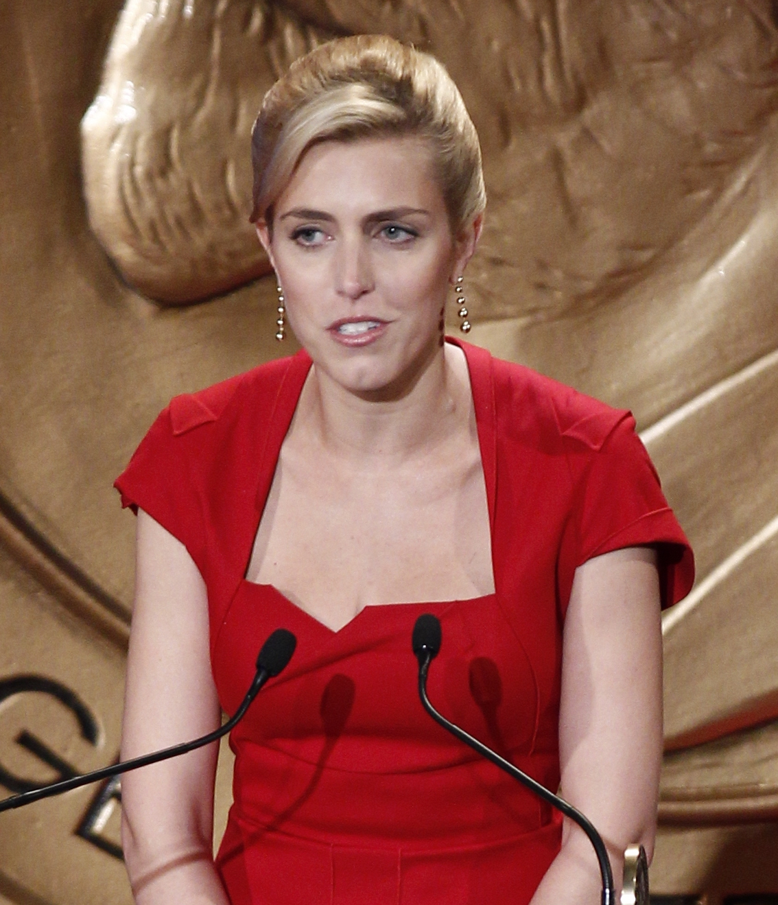 Clarissa Ward at the 71st Annual Peabody Awards ceremony, in 2012, where she was accepting an award for her news reporting from Syria during the Syrian uprising. PHOTO CREDIT: ANDERS KRUSBERG / PEABODY AWARDS